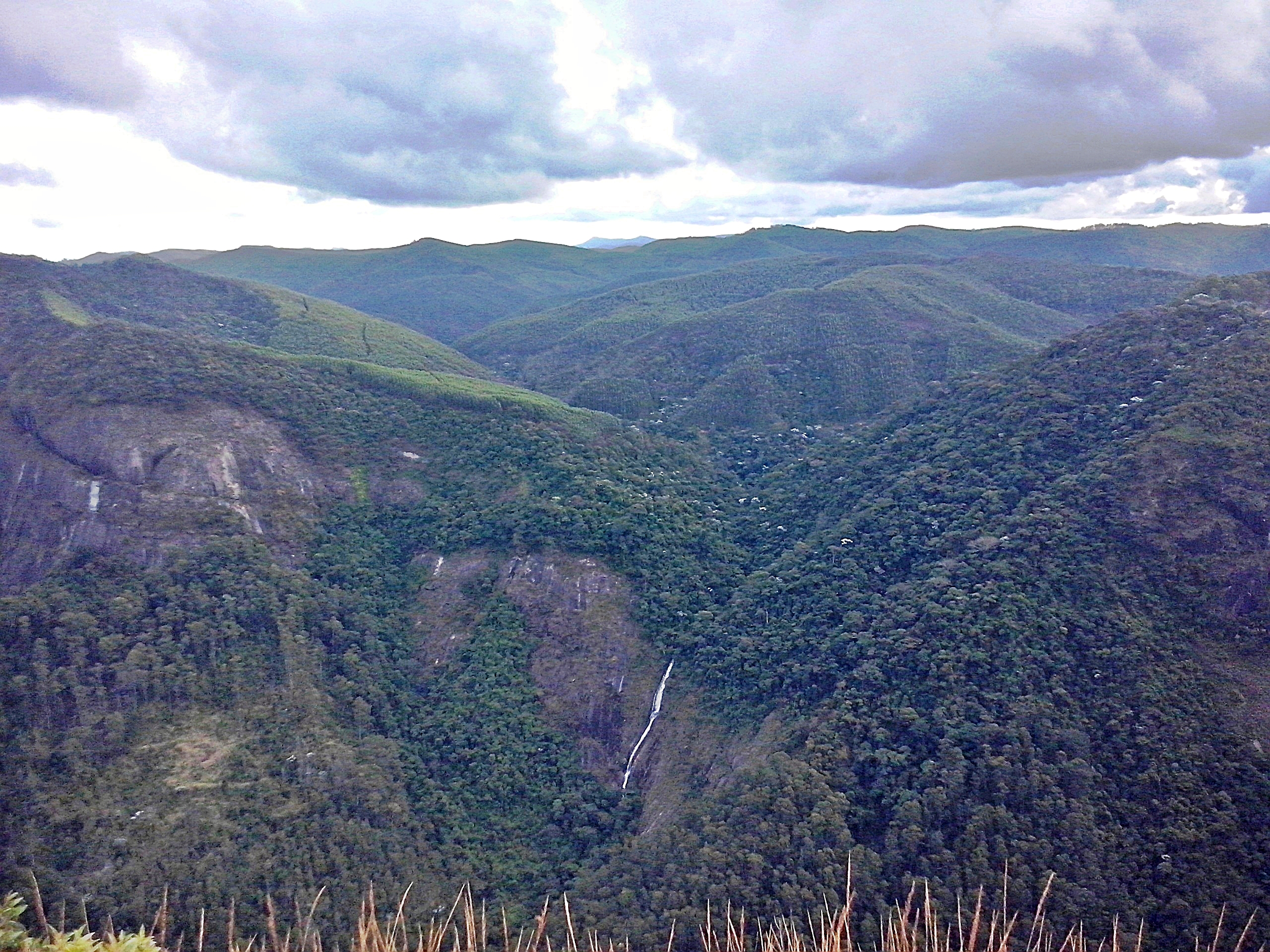 The Cachoeirão between hills in the Serra dos Cocais, in Coronel Fabriciano, Minas Gerais, Brazil.